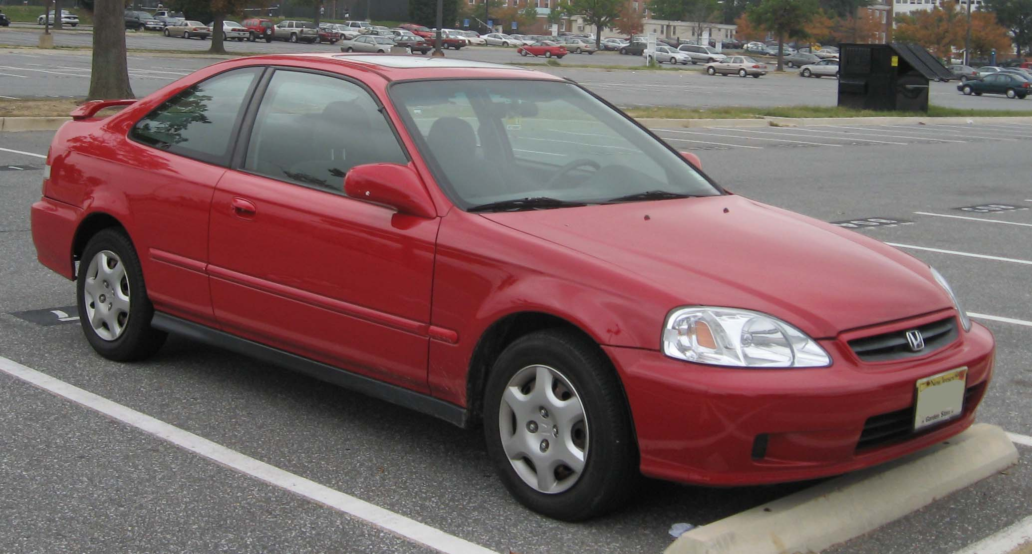 1999-2000 Honda Civic photographed in College Park, Maryland, USA.